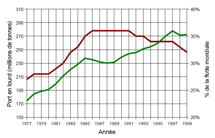 Evolution of the number of bulk carriers in the world : the deadweight (green) and the proportion in the world merchant fleet (red) are shown between 1977 and 1999. Source : Lloyd's Register World Fleet Statistics Tables , London, 2000.